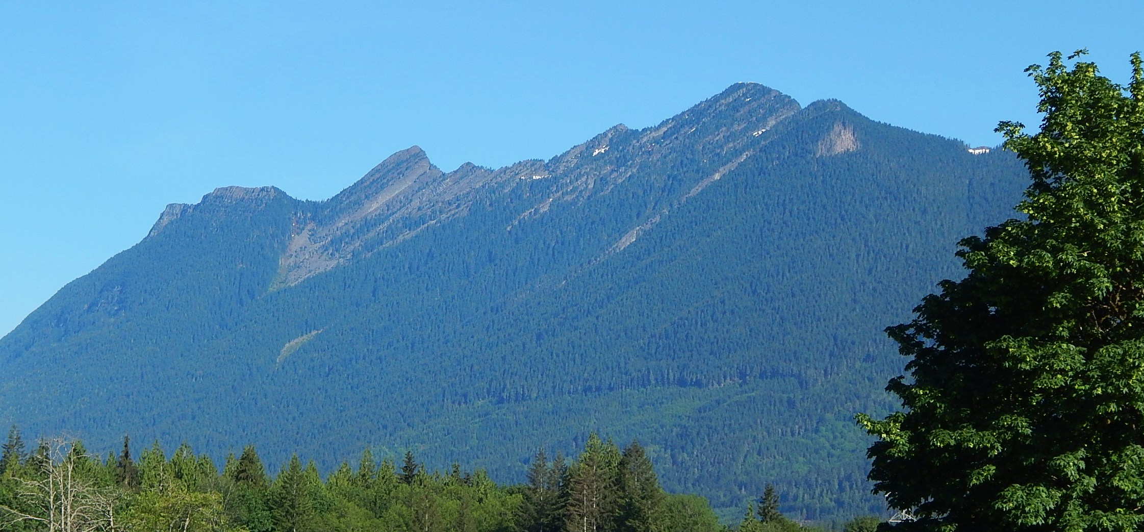 Mount Higgins in North Cascades as seen near Darrington, WA